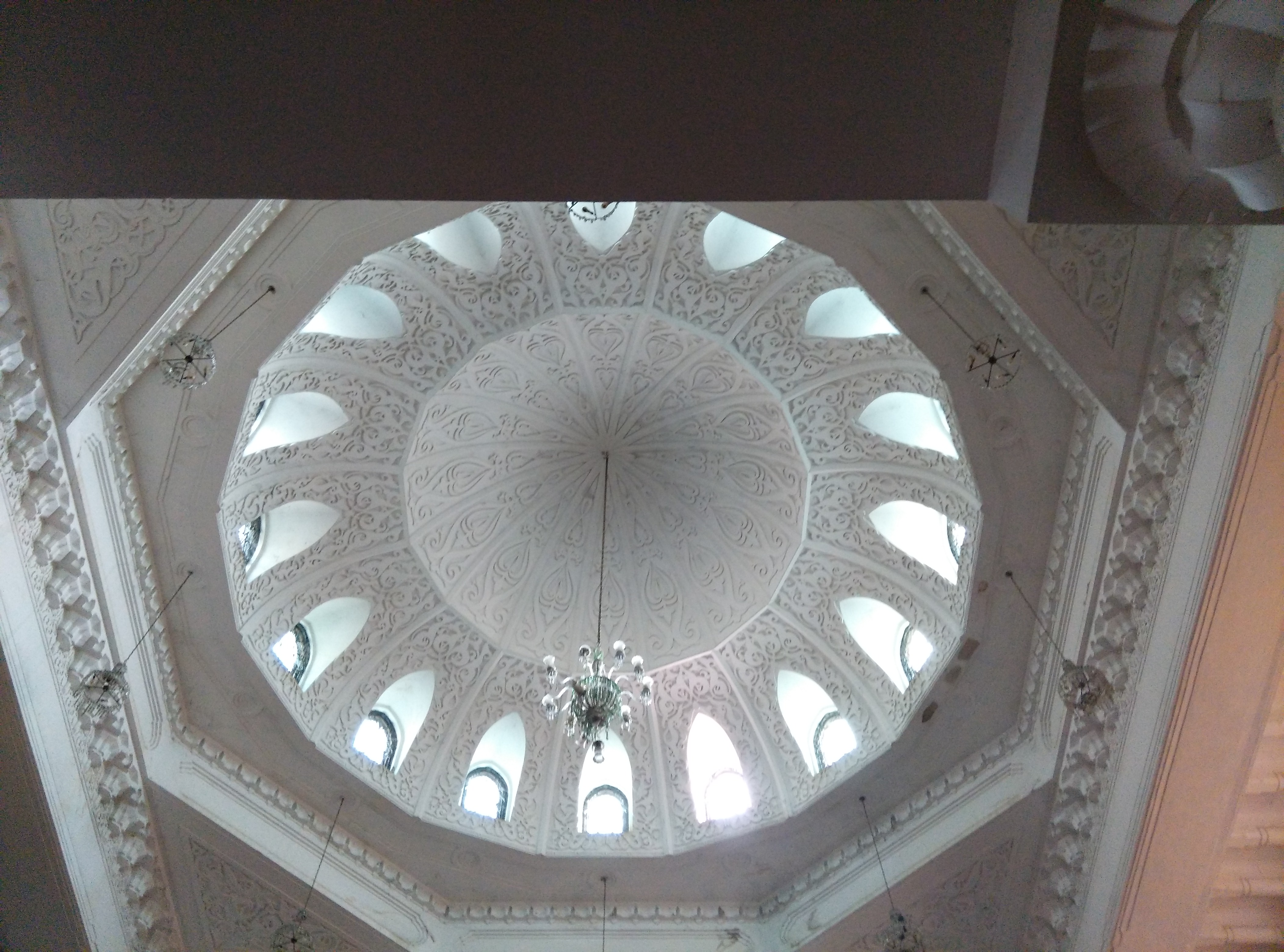 Dome of Arts College, Osmania University